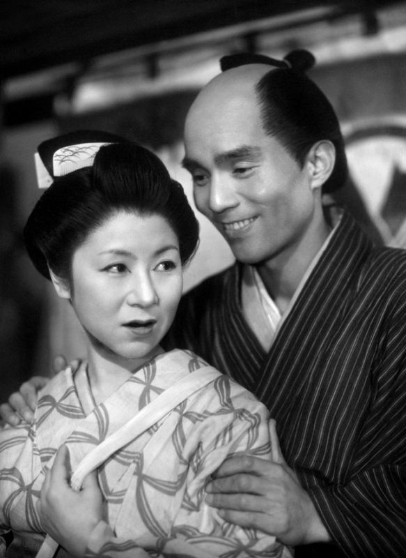 Kinuyo Tanaka and Jūkichi Uno in Saikaku ichidai onna (西鶴一代女) directed by Kenji Mizoguchi - 1952